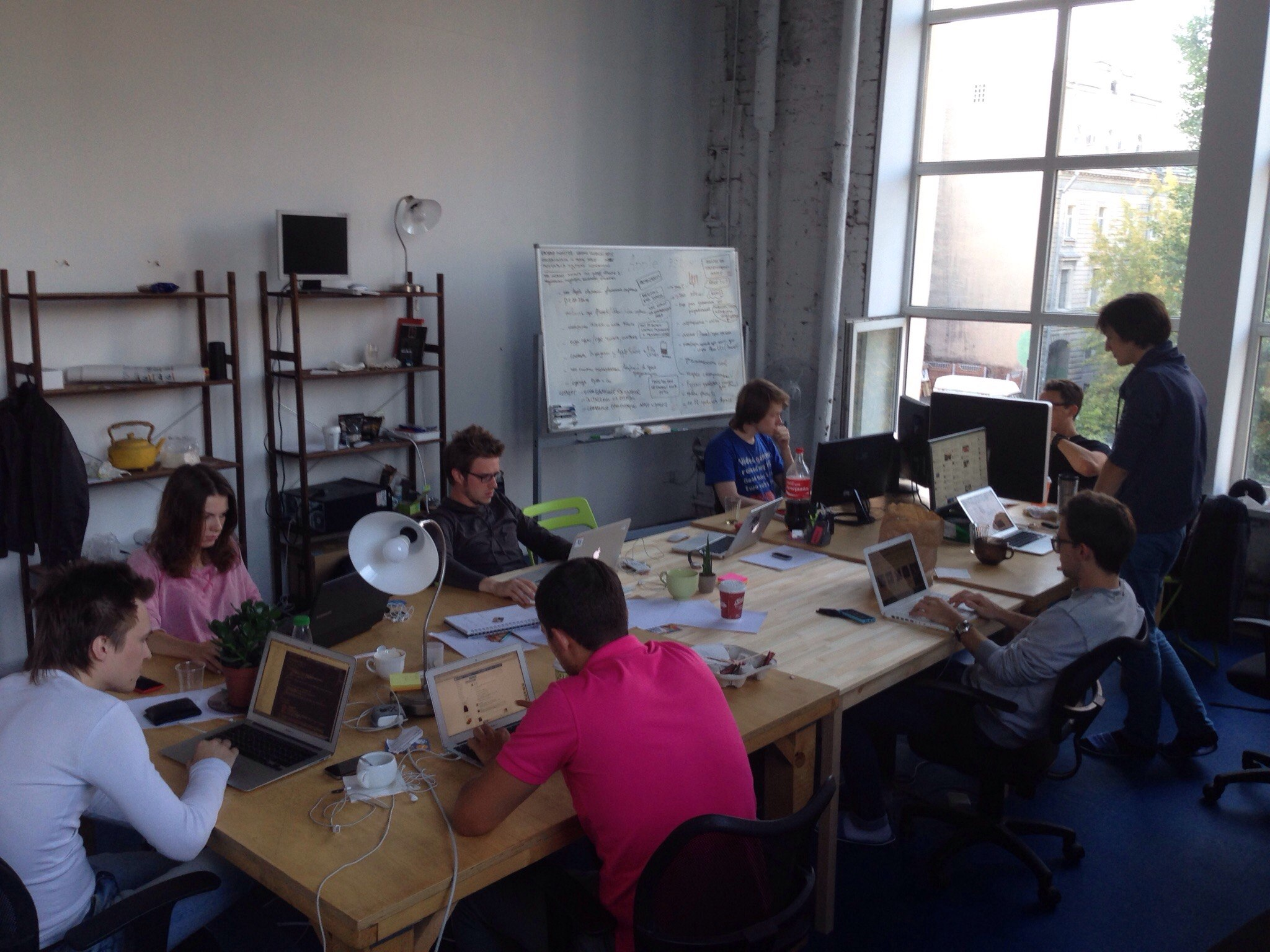 The headquaters